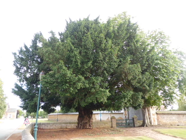 Centuries Old Yew in the Saint-Aubin-le-Guichard Churchyard, Normandie